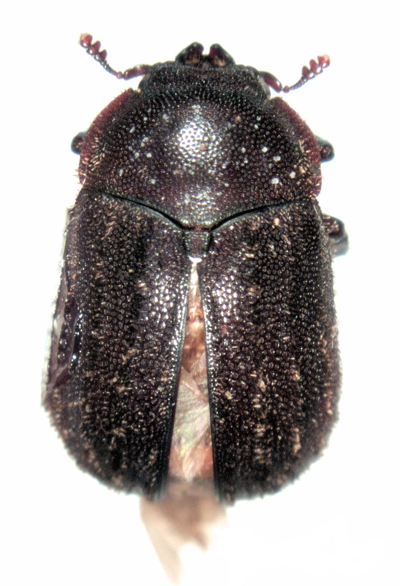 adult Aesalus scarabaeoides (dorsal)